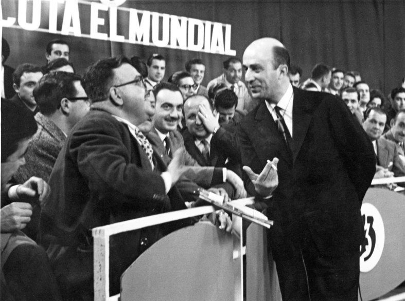 Argentine sports journalist Dante Panzeri (1921-1978) debating at a TV program.